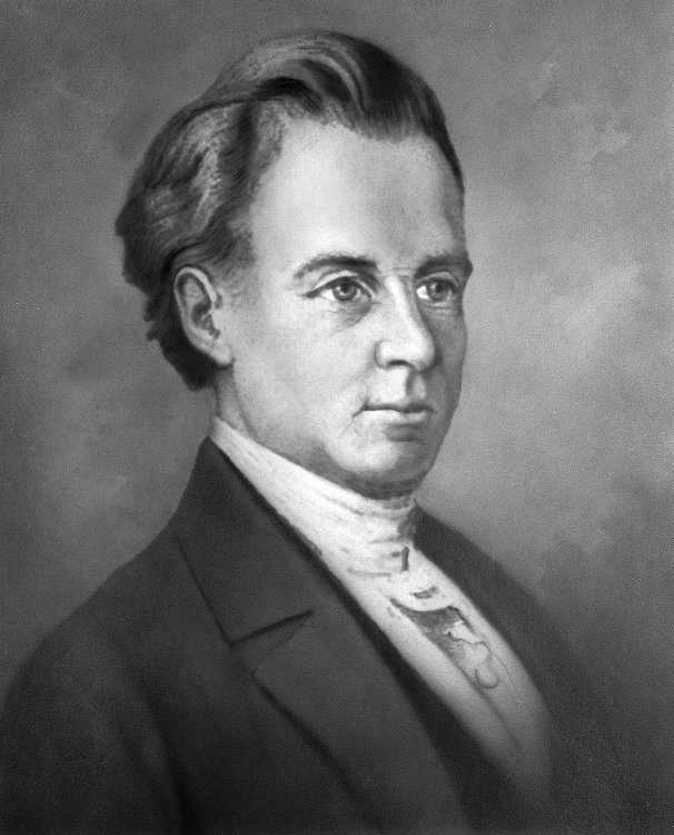 Portrait of former Mayor of Pittsburgh Joseph Barker